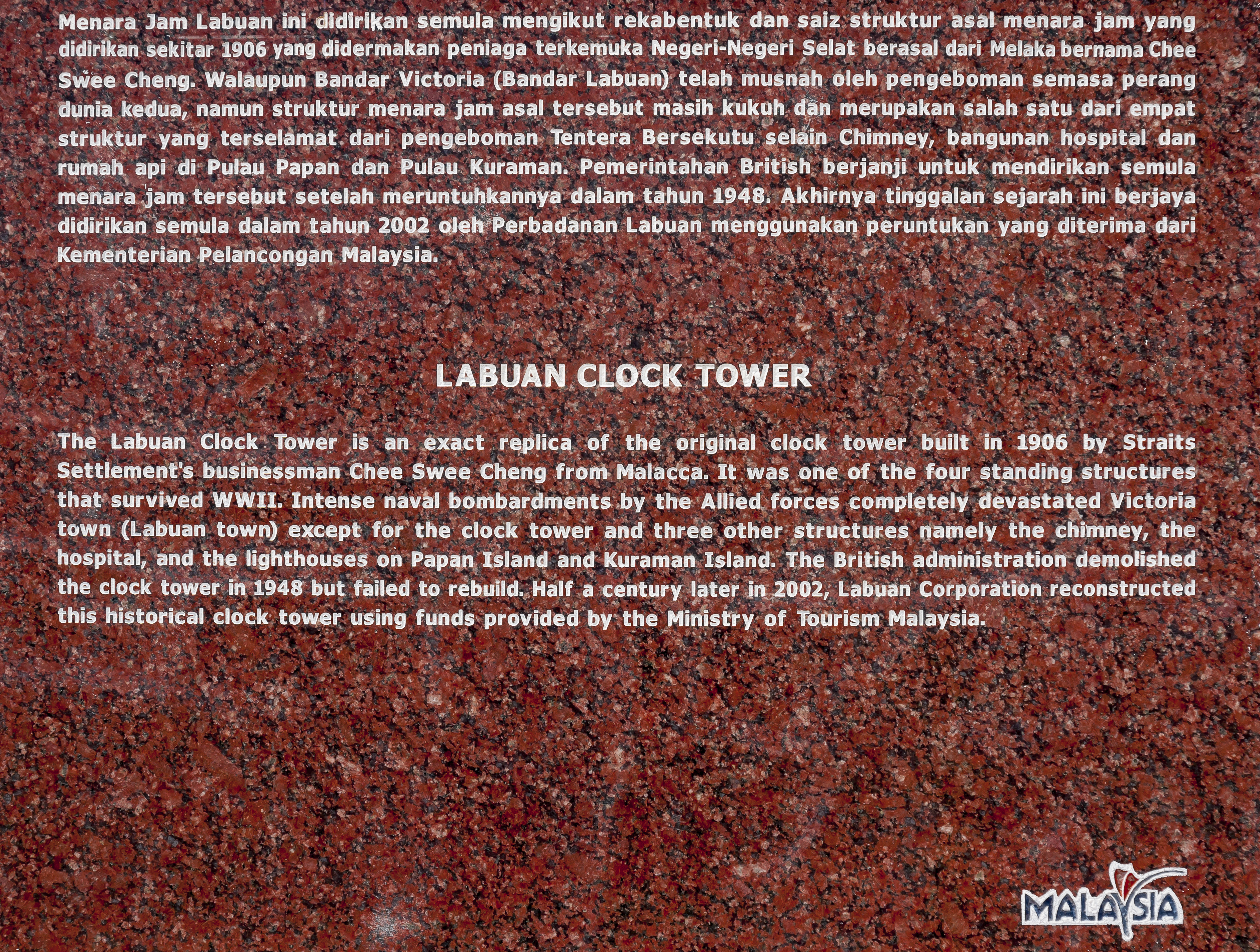 Labuan, Memorial Plate with inscription at the Replica Clock Tower of 1906